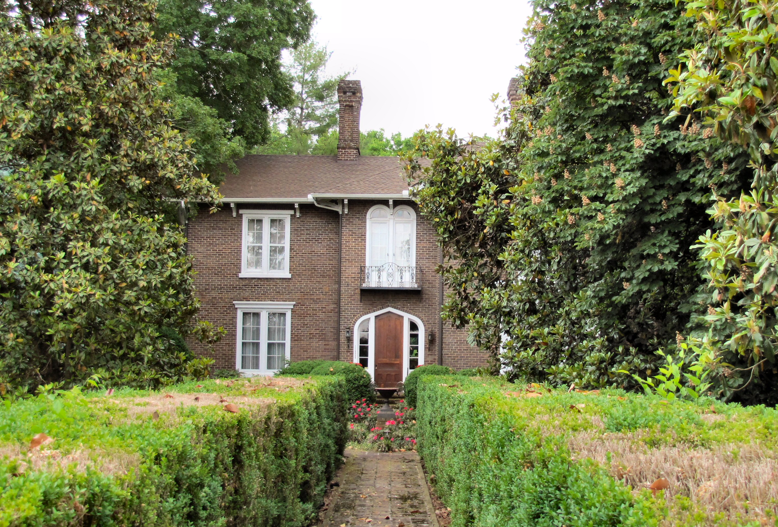 The Branner-Hicks House in Jefferson City, Tennessee, United States. Built in the 1850s, this house is now listed on the National Register of Historic Places.